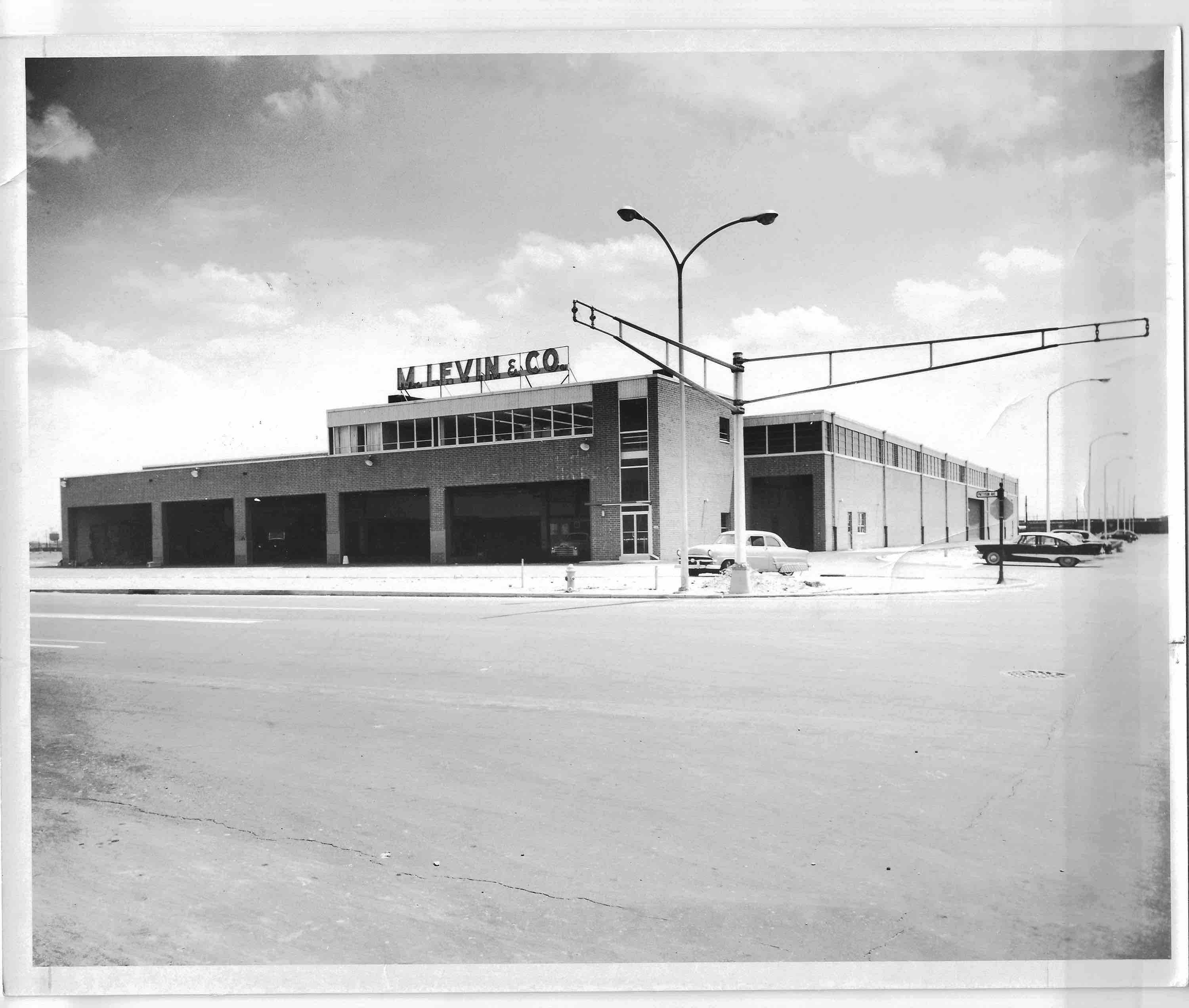 M. Levin & Co., 336 Pattison Avenue, Philadelphia, Pennsylvania, in 1959. M. Levin & Co. moved from the Dock Street wholesale produce market to the new Terminal Market in South Philadelphia in June 1959.